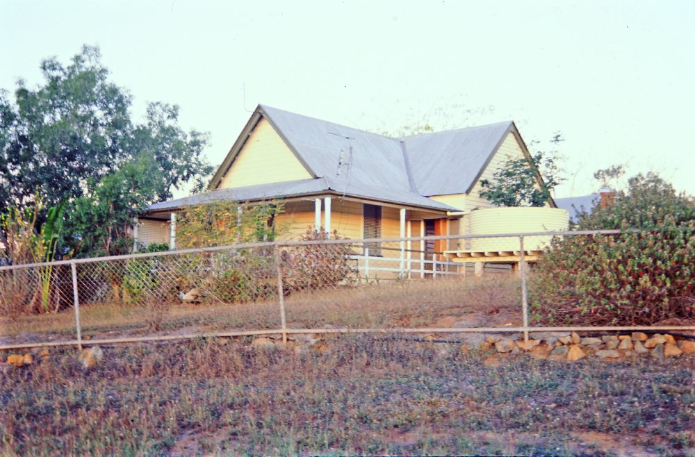 Ravenswood School and Residence (2002)